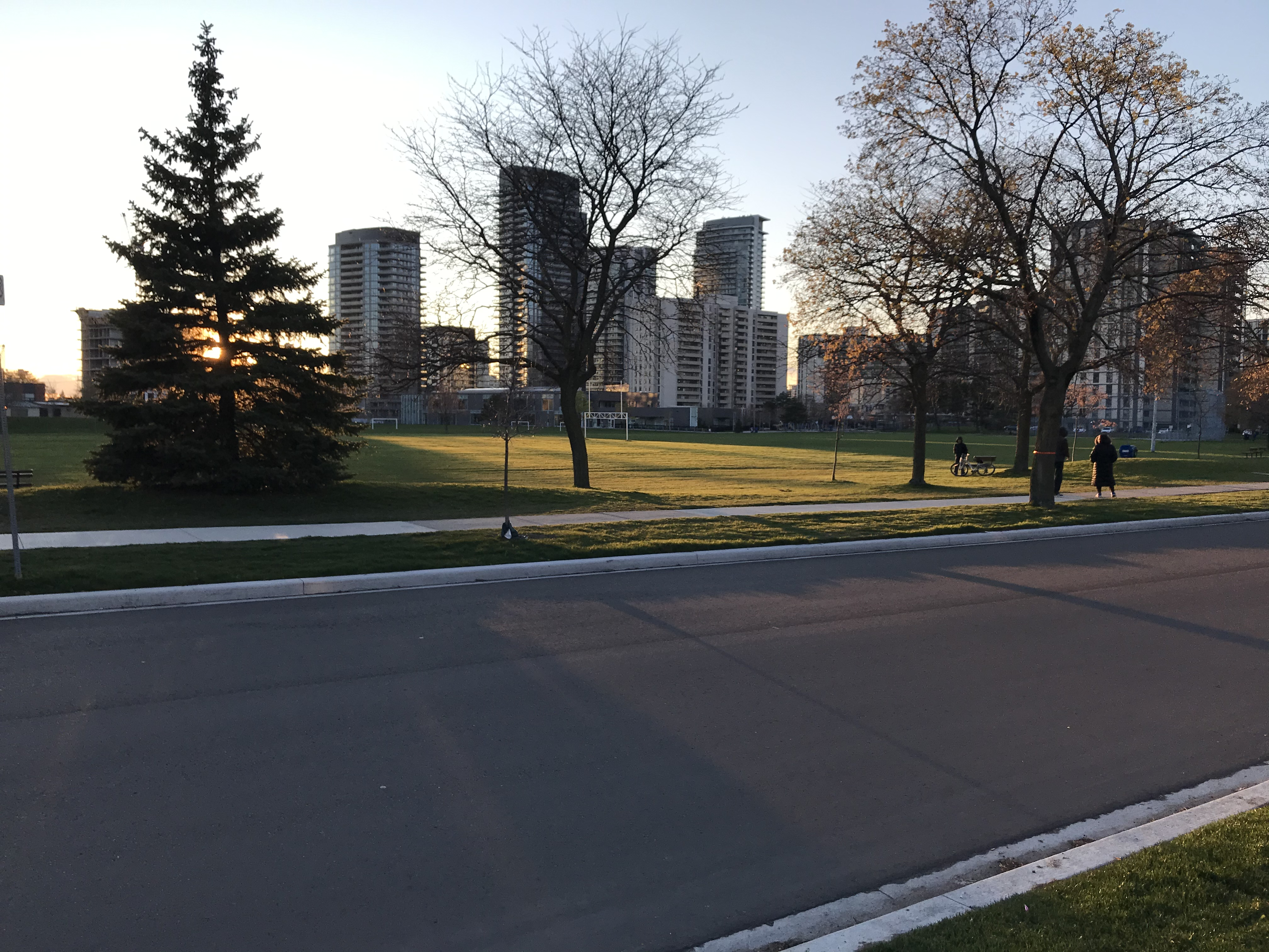 Parkway Forest park